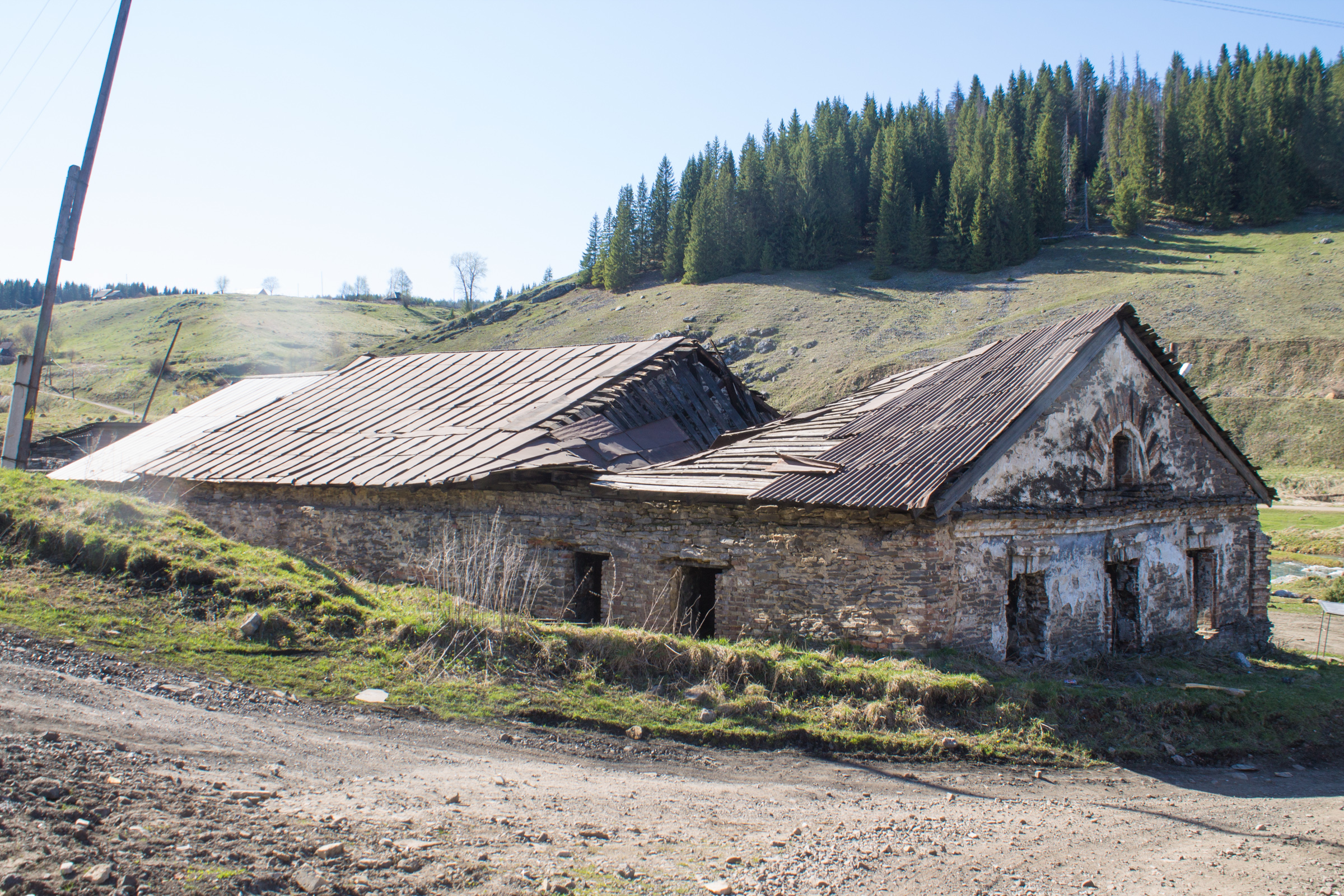 Здание кузни и слесарной мастерской Кыновского завода. Проект 1826 года, строение 1840-х годов. Внутри корпус разделен на 5 помещений, каждое из которых имеет свой вход с фасада